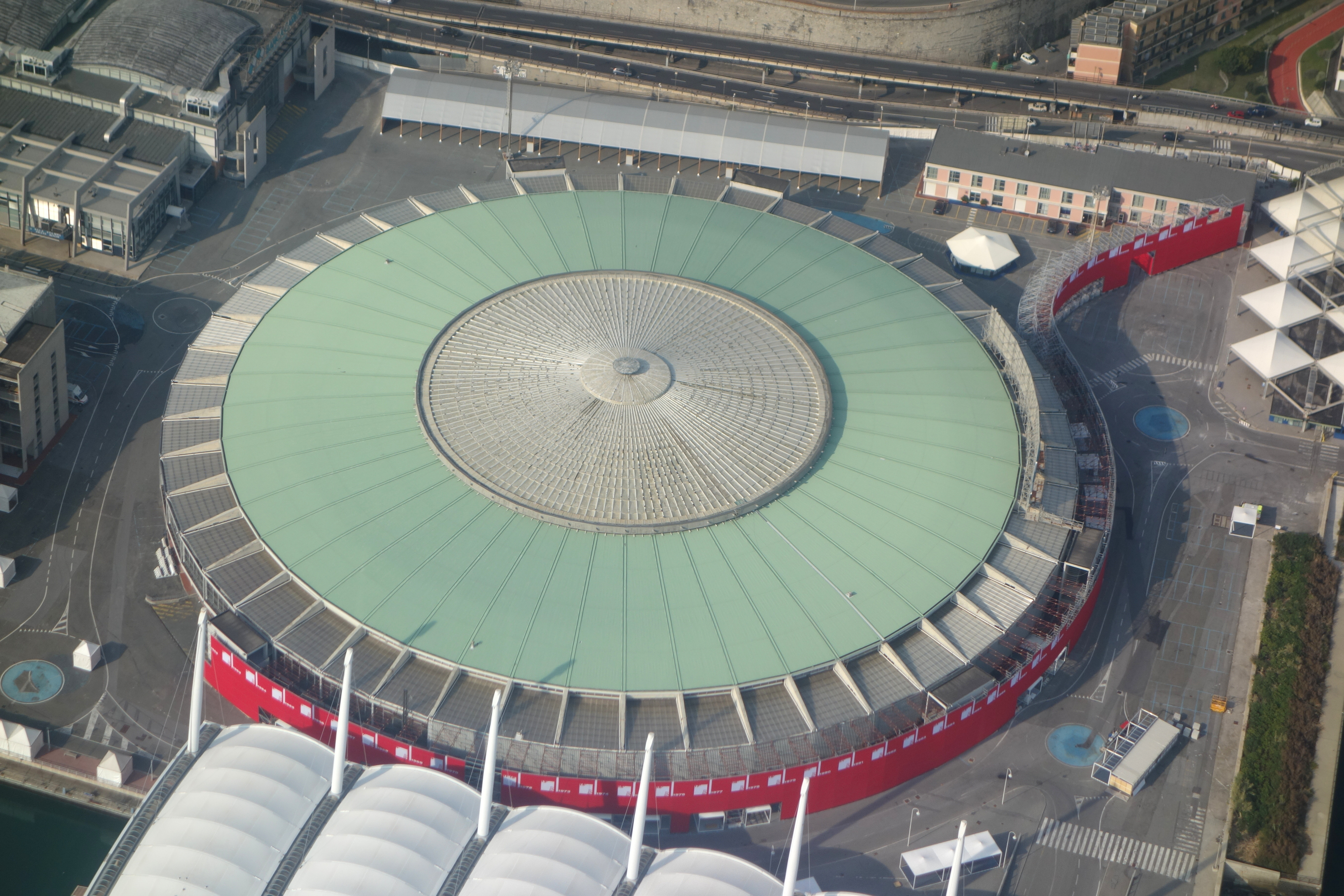 Fiera di Genova - Genova, Italy.